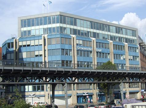 "Office building of the German Lloyd at Vorsetzen 35 in Hamburg"